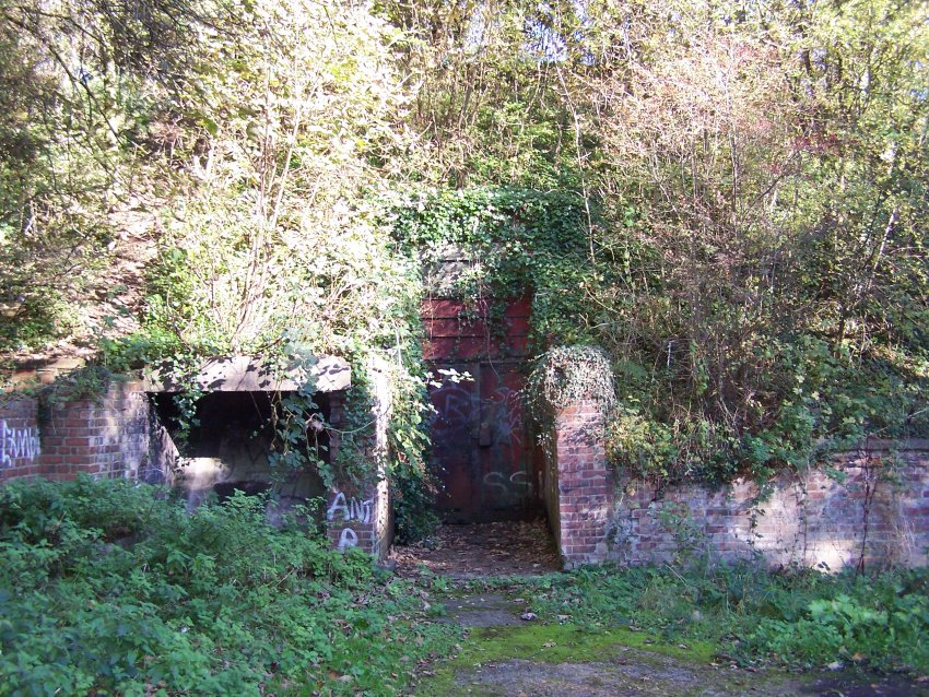 Author: Tina Cordon, Source: Own Picture Tina Cordon 16:22, 4 January 2007 (UTC)